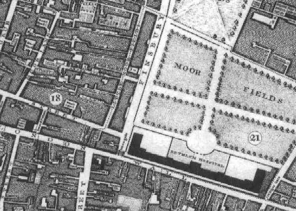 Rocque's Map of London. Published 1746. . Showing London Wall and Moorgate.